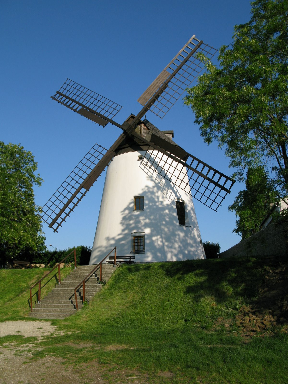 Windmill in Podersdorf at Lake Neusiedl near Vienna / Austria / European Union. Larger of the two last surviving windmills in Austria. The since 1849 existing mill, still in possession of the family Lentsch was in operation until 1926.